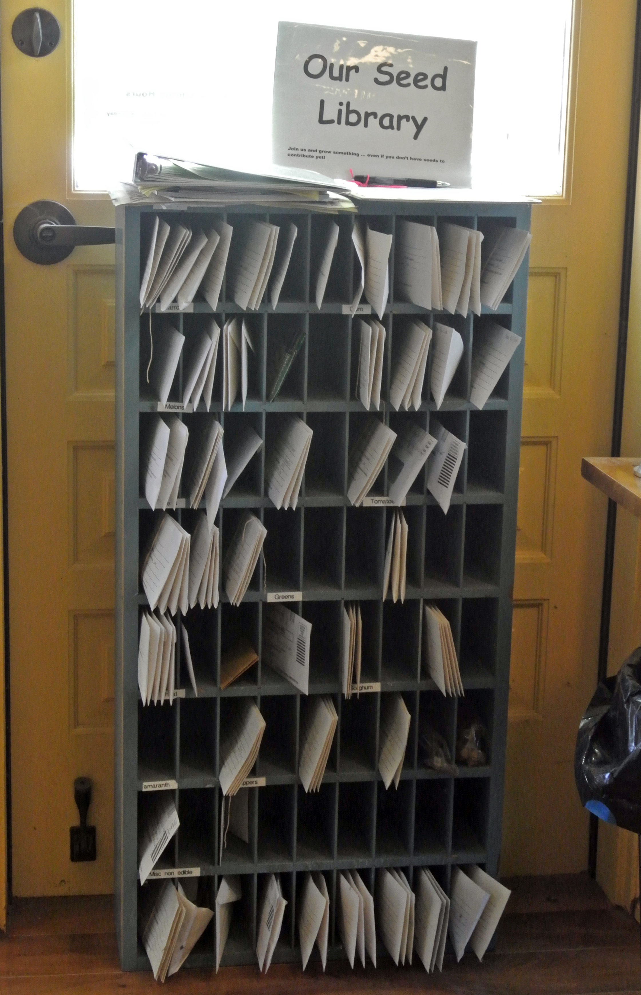 seed library (in Arizona? USA)